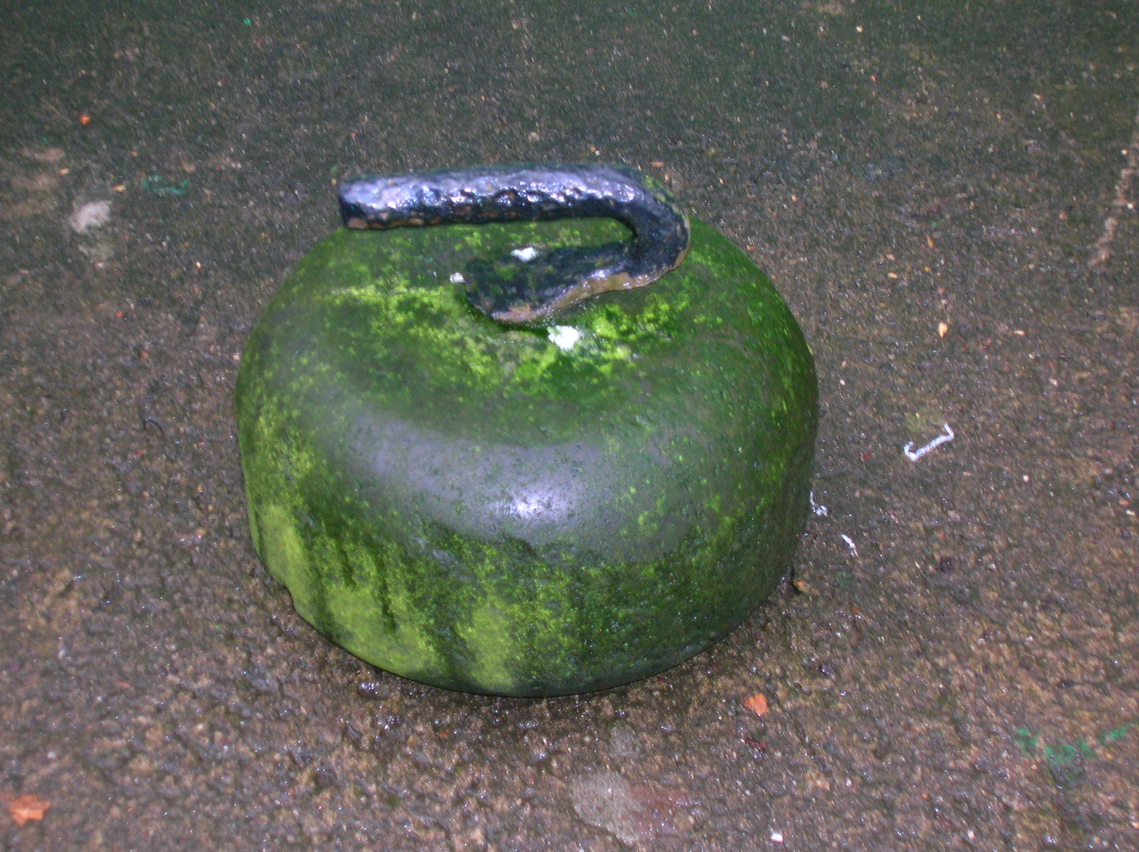 An old-style curling stone. The bottom is flat and has no concavities. It has a cross marked near the handle which may be its owner's mark.